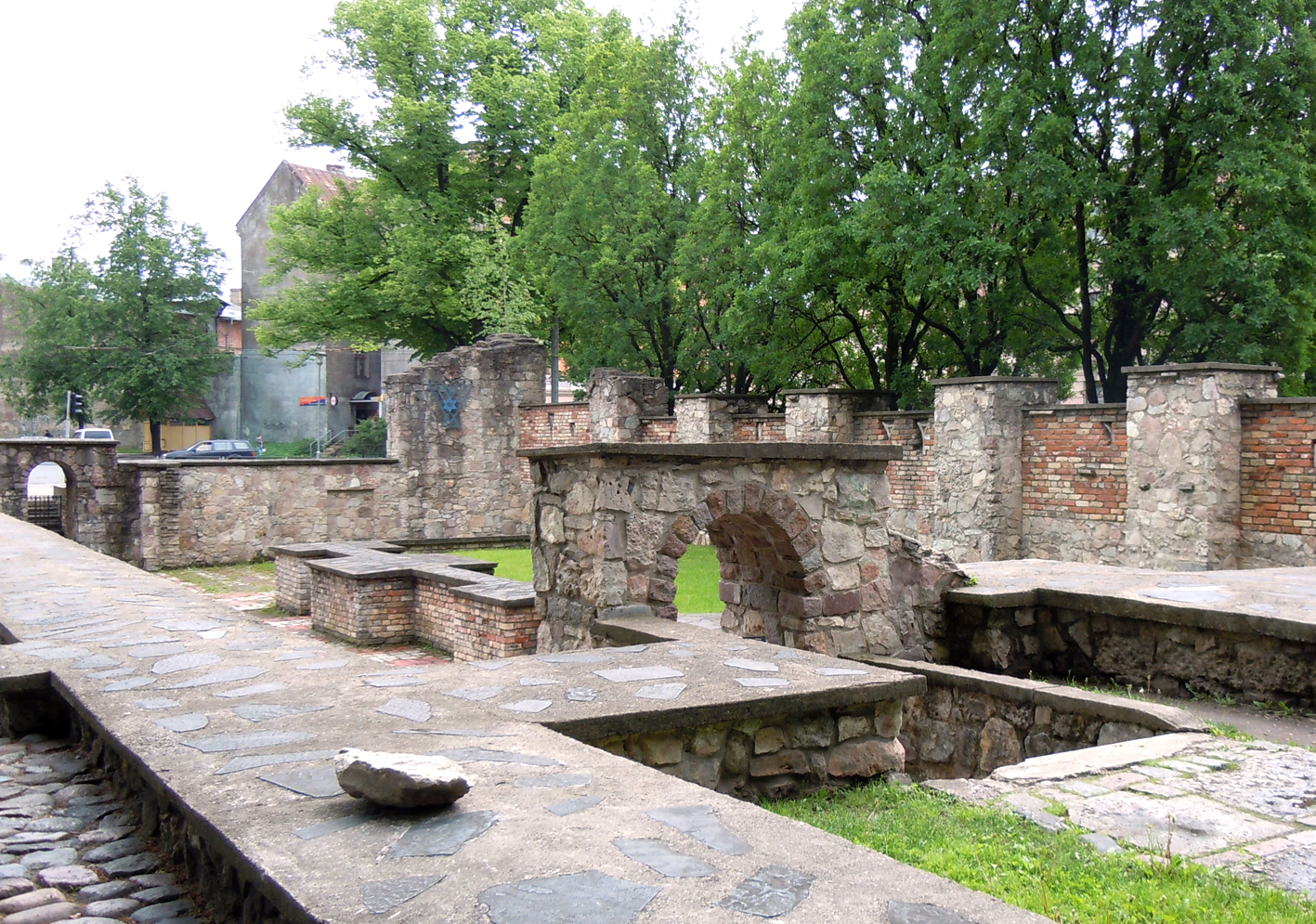 Memorial.Choral Synagogue (Riga)